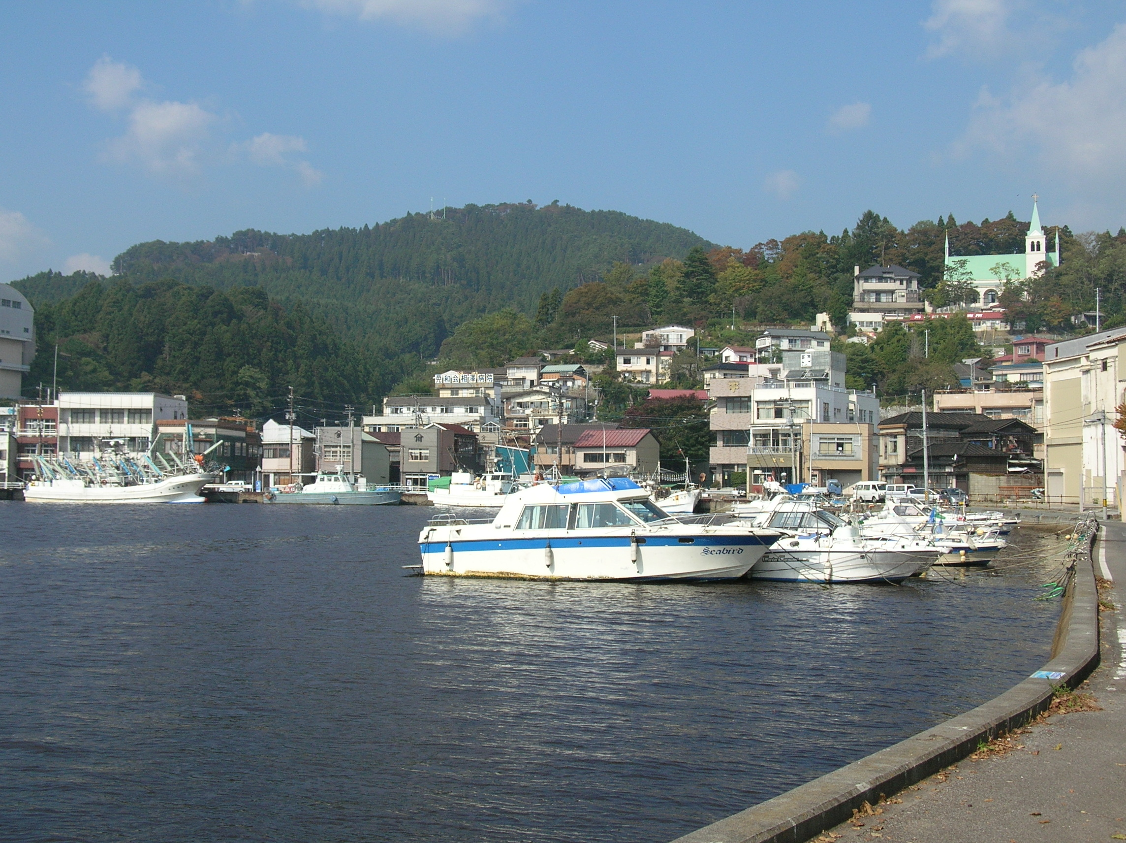 Kesennuma and Mount Anba seen from the southeast.